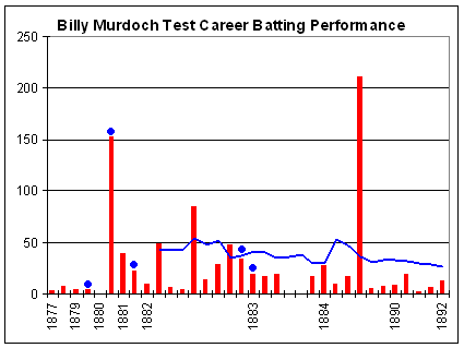 Test batting chart of Billy Murdoch. Red columns are the runs in the innings. Blue dots indicate not outs. Blue line is average in the last ten innings. Thanks to Raven4x4x for providing the template.